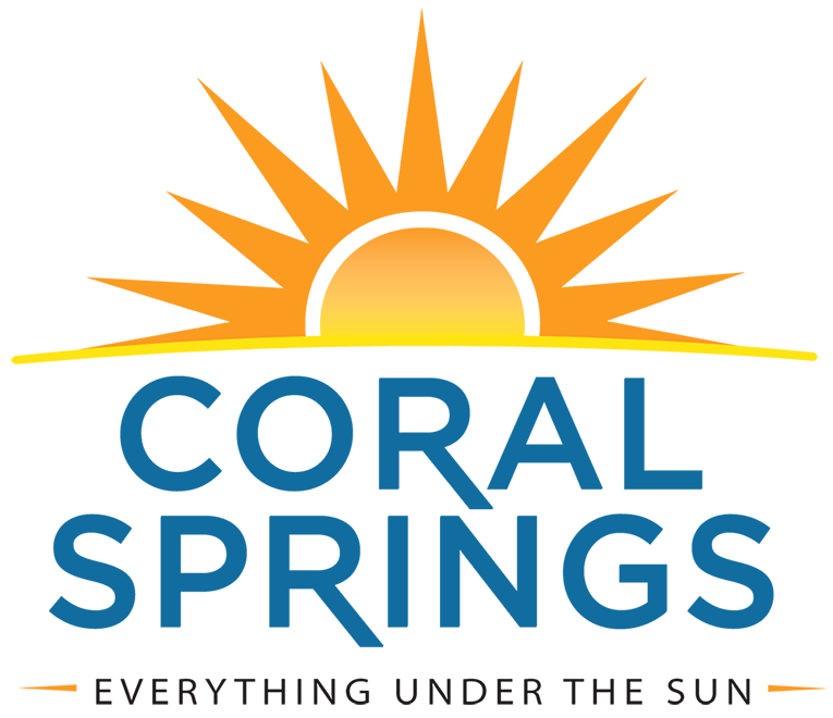 City of Coral Springs Official Logo: Everything Under the Sun